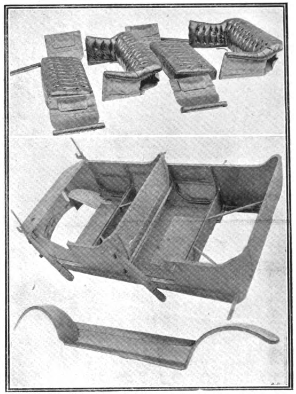 "Closer views of the BSA all-steel body with the detachable upholstery. Note the hood fastenings"